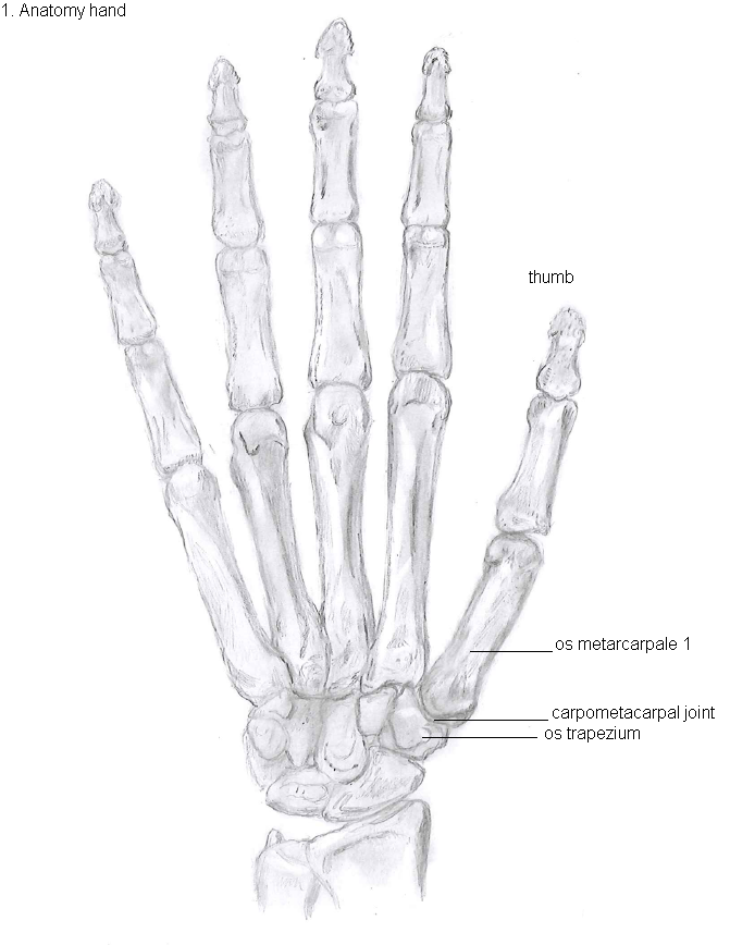 Showing the bones of the hand